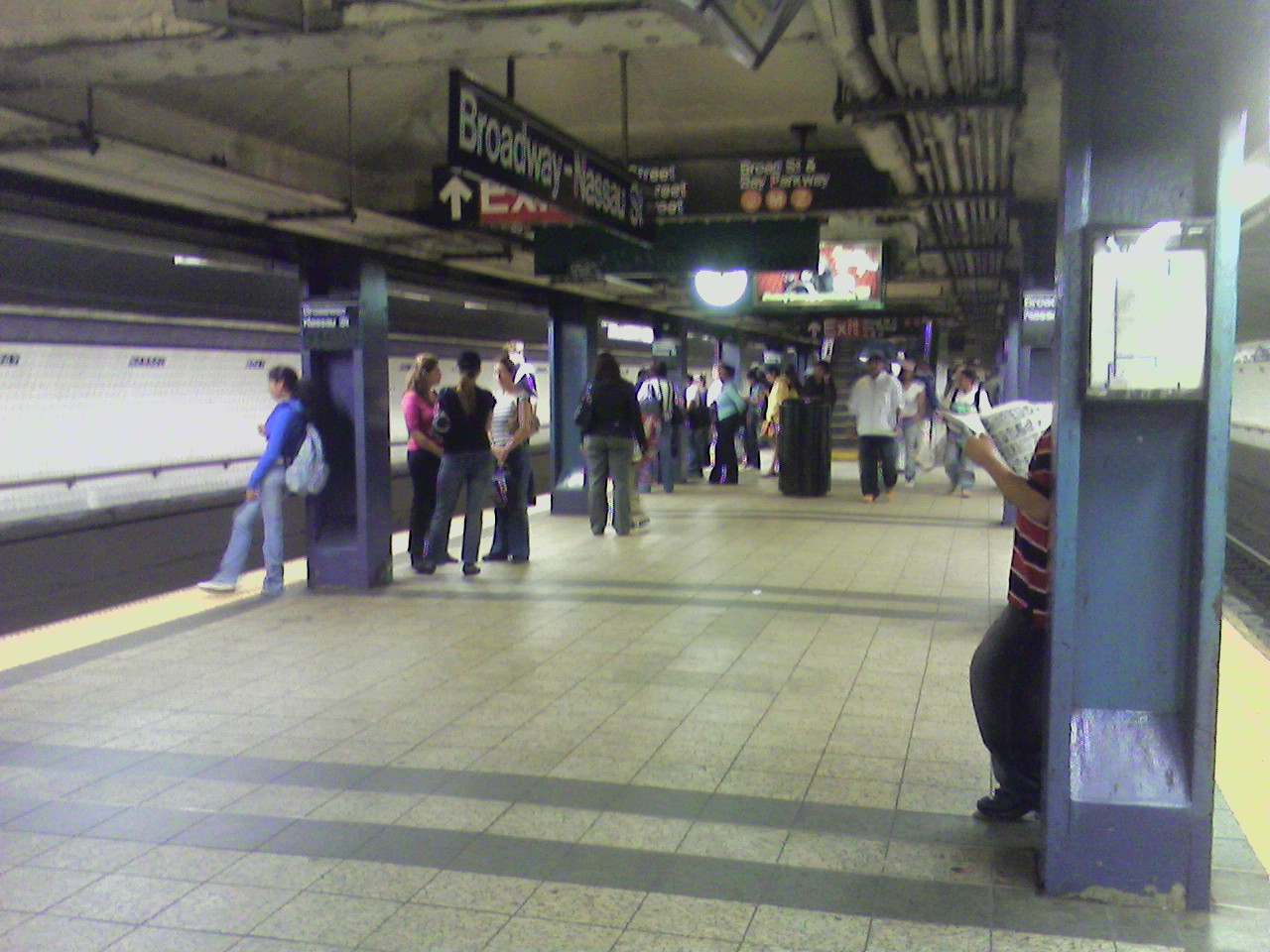 The Broadway-Nassau Street subway station.